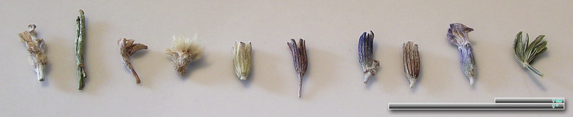 dried Lavandula angustifolia (also Lavandula spica or Lavandula vera; common lavender, true lavender, narrow-leaved lavender or English lavender (though not native to England); formerly L. officinalis) flowers